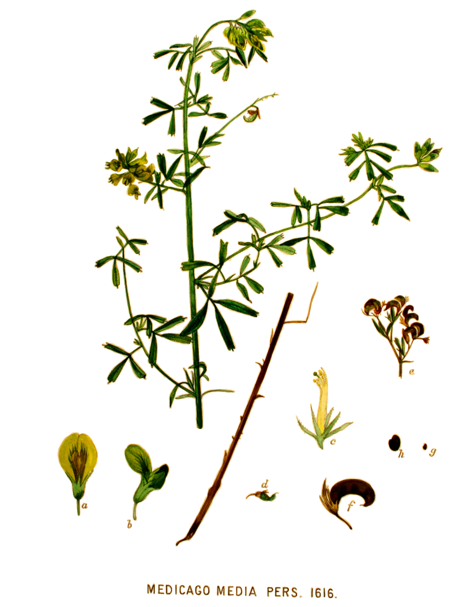 Illustration of Medicago × varia Martyn (Syn. Medicago sativa L. nsubsp. media (Pers.) Schübl. & Martens, Medicago media Pers.)